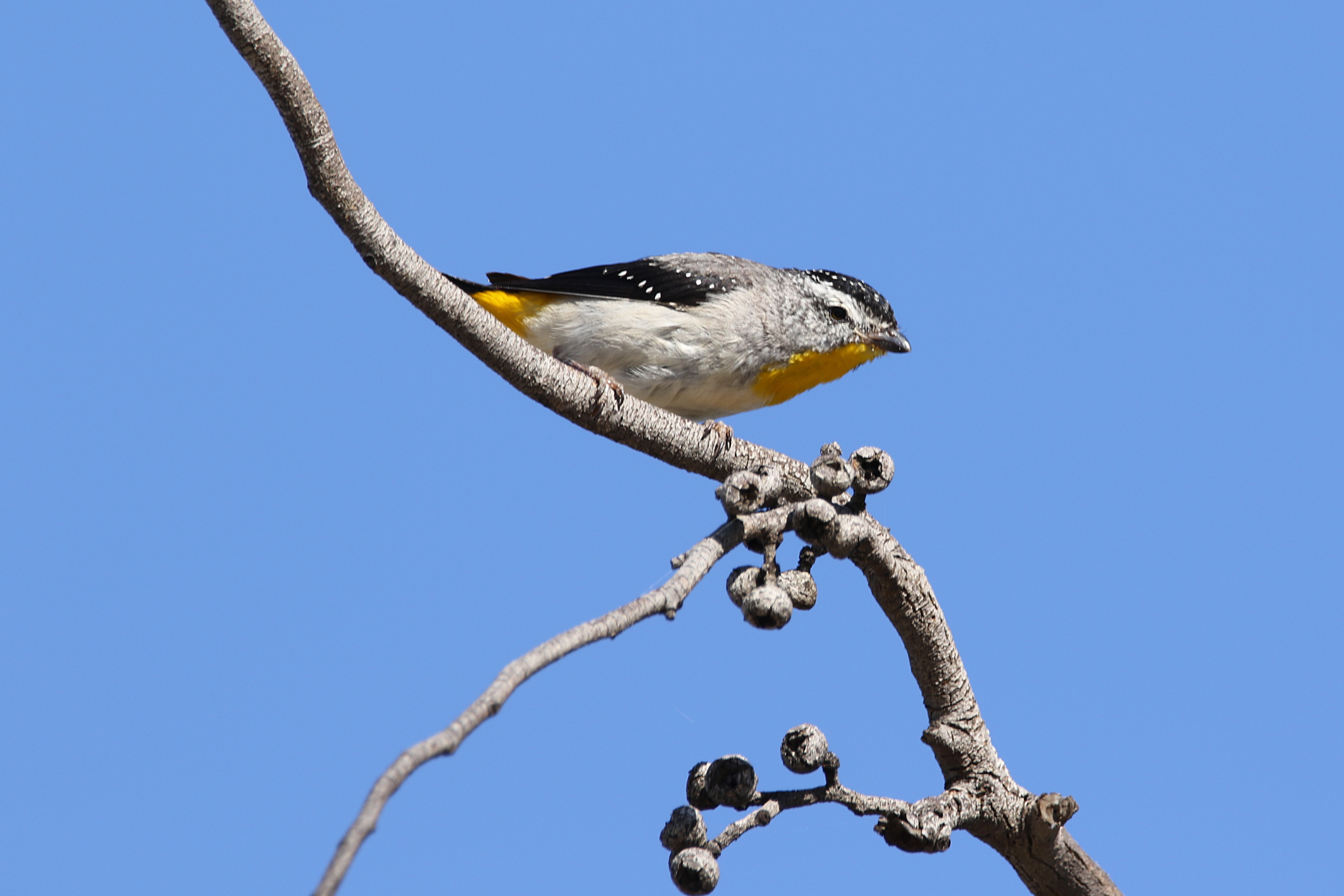 Pardalotus punctatus xanthopyge McCoy, 1866, Yellow-rumped Pardalote, Little Desert National Park, VIC, 25 January 2017